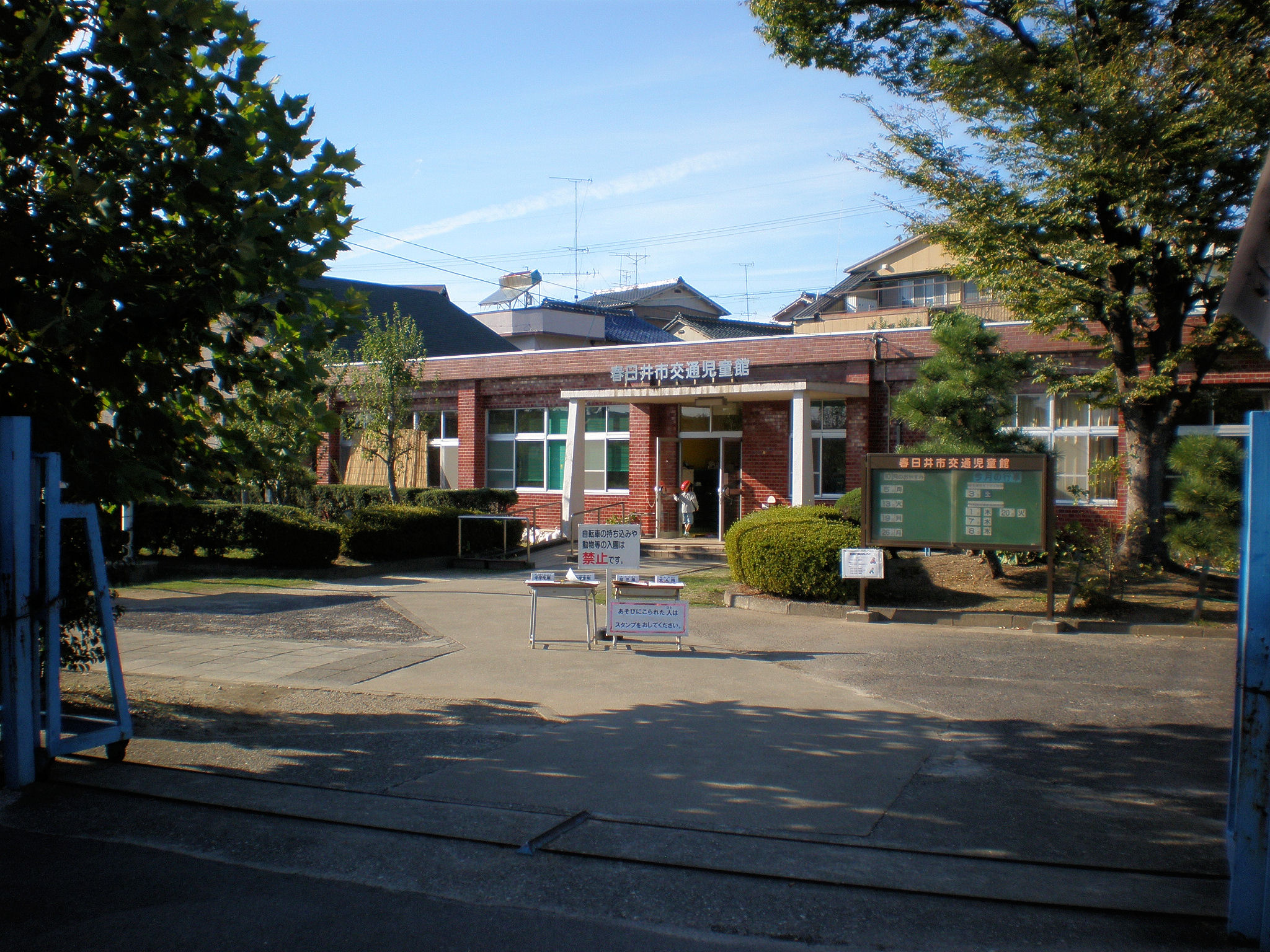 Kotsujidoyuen (Kasugai)